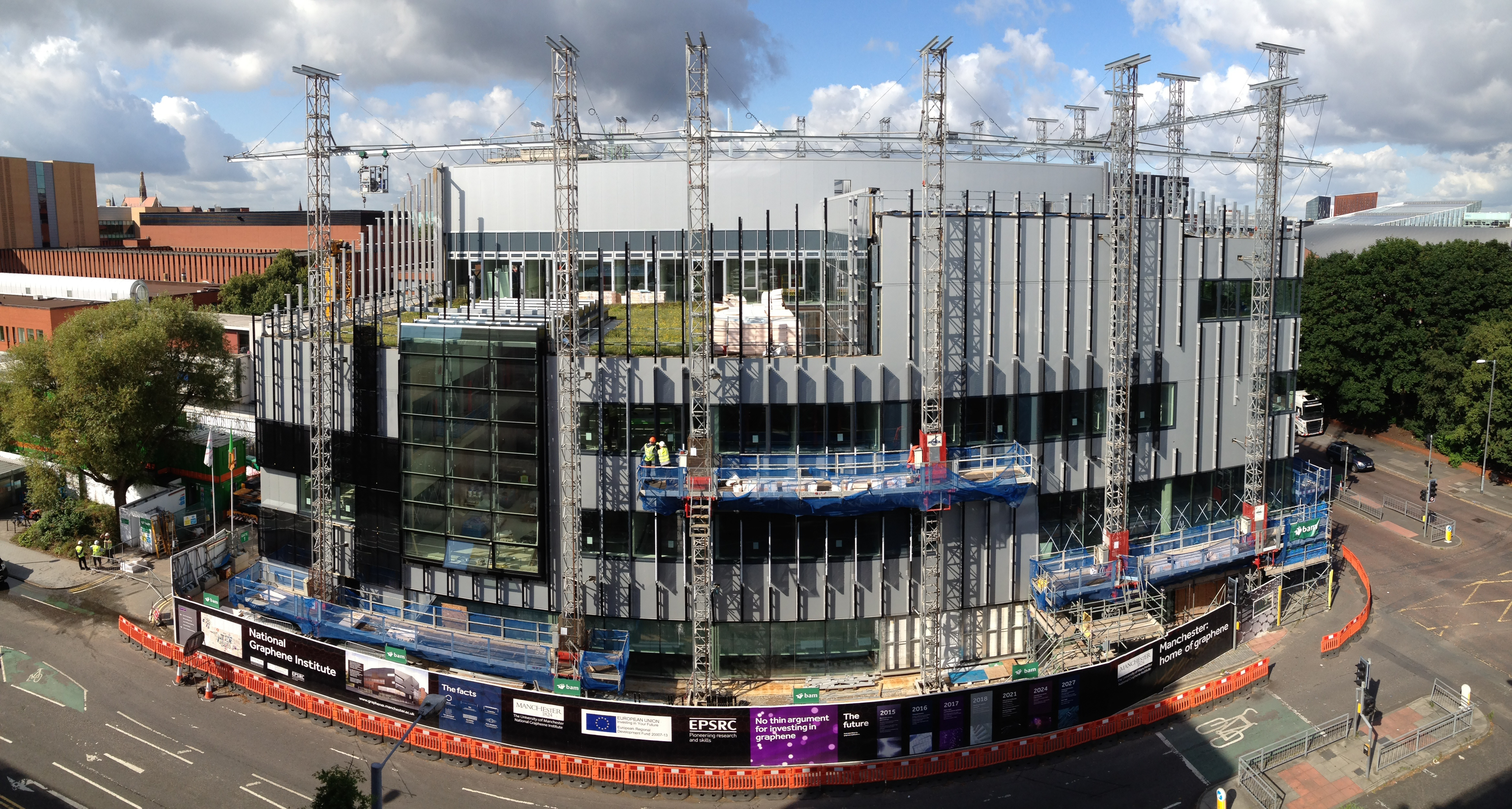 National Graphene Institute being constructed in 2014.